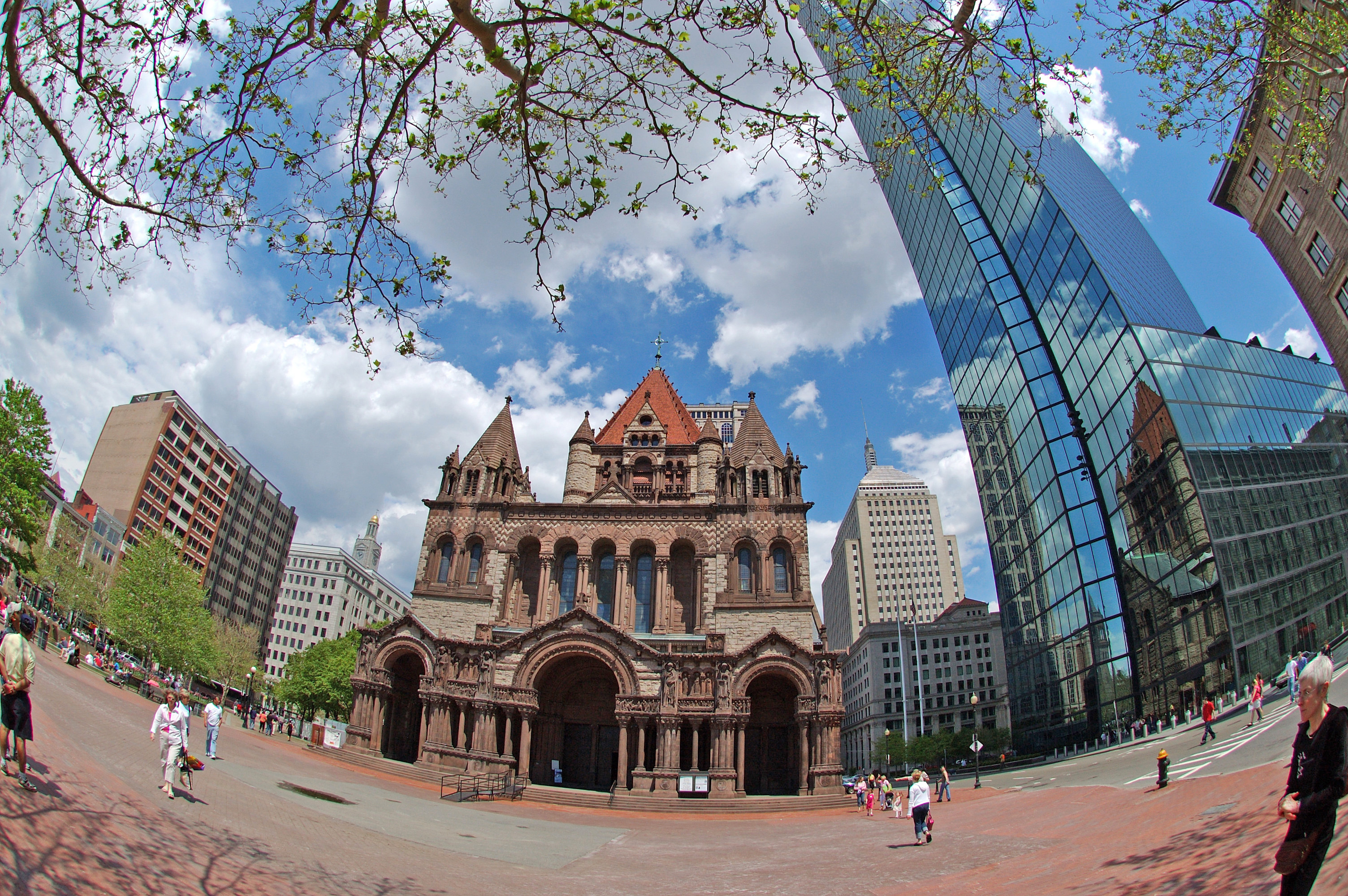 Copley Square, Boston